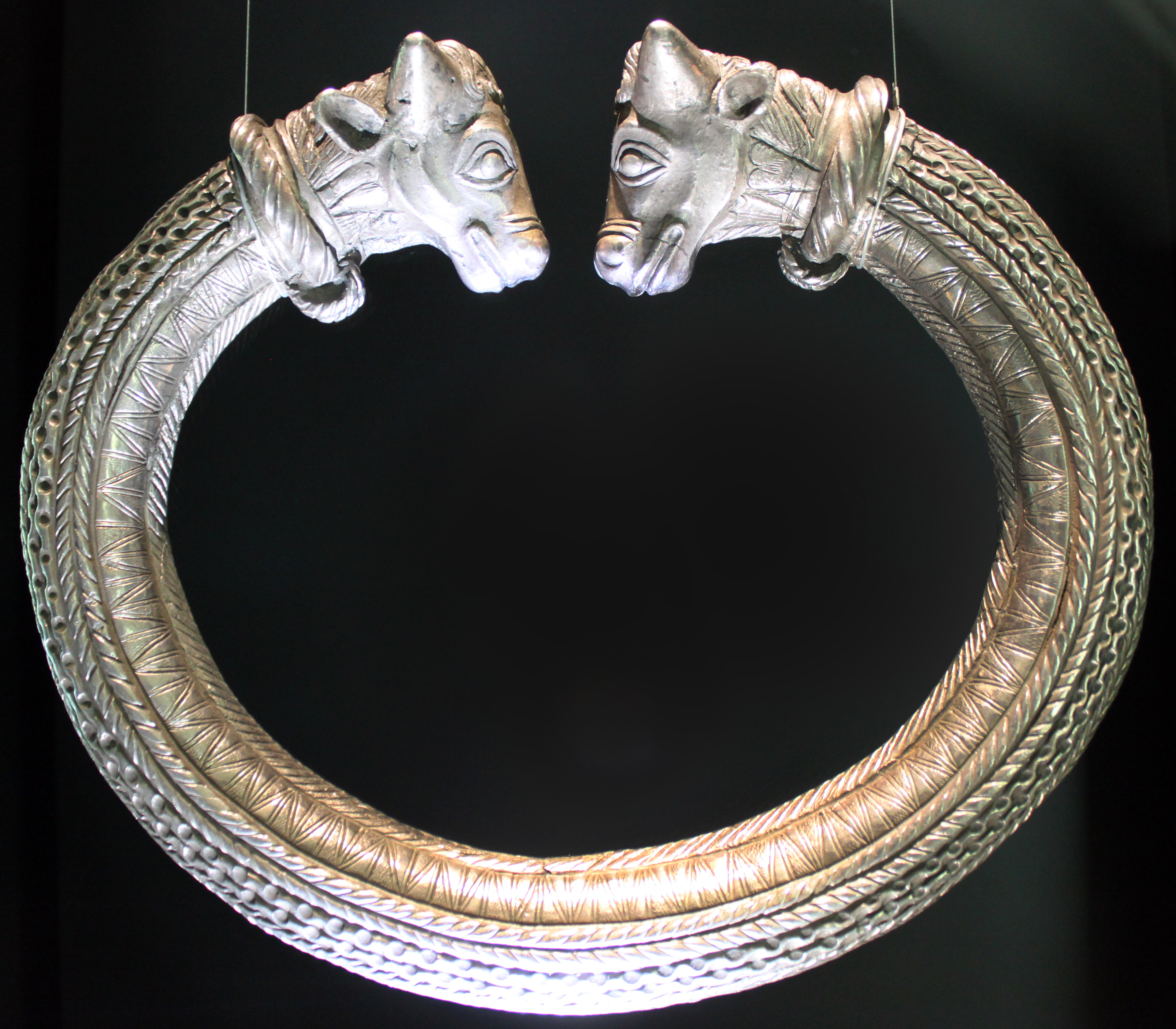 Silver Ring with bull's head ends, 1rst century BC, Rottweil Region, shown at the Landesmuseum Württemberg, Stuttgart, Germany